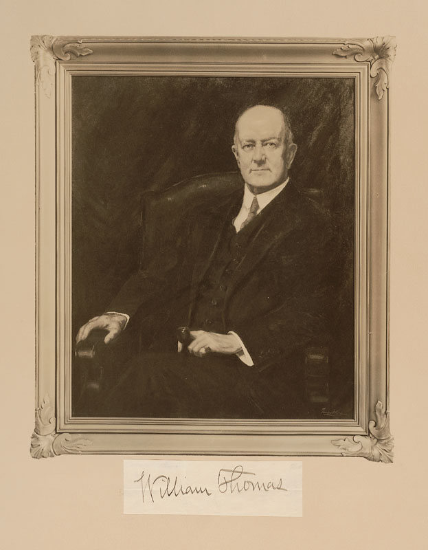 William D. Thomas (1880-1936)